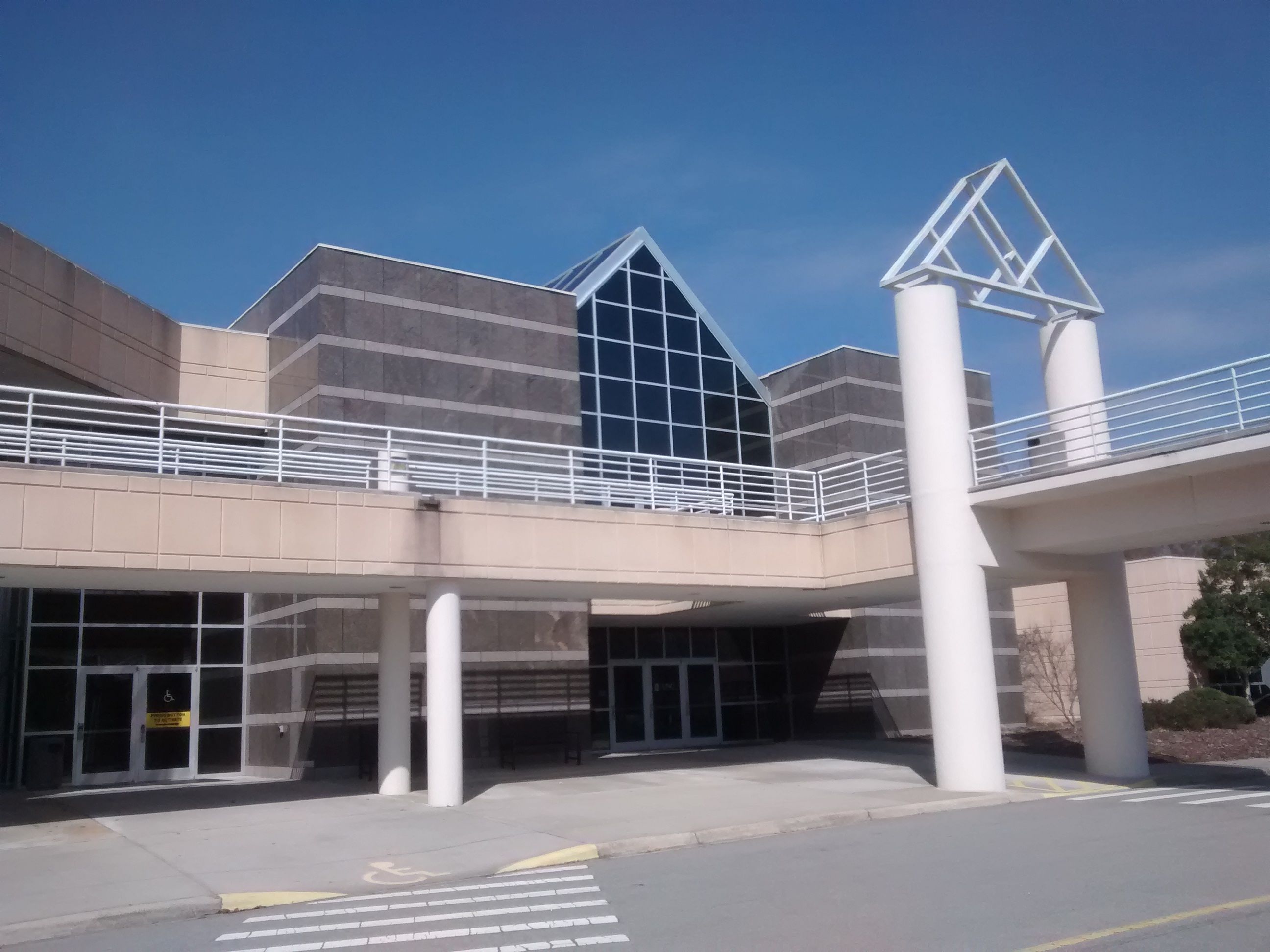 The William and Ida Friday Center for Continuing Education at the University of North Carolina at Chapel Hill in March 2015.